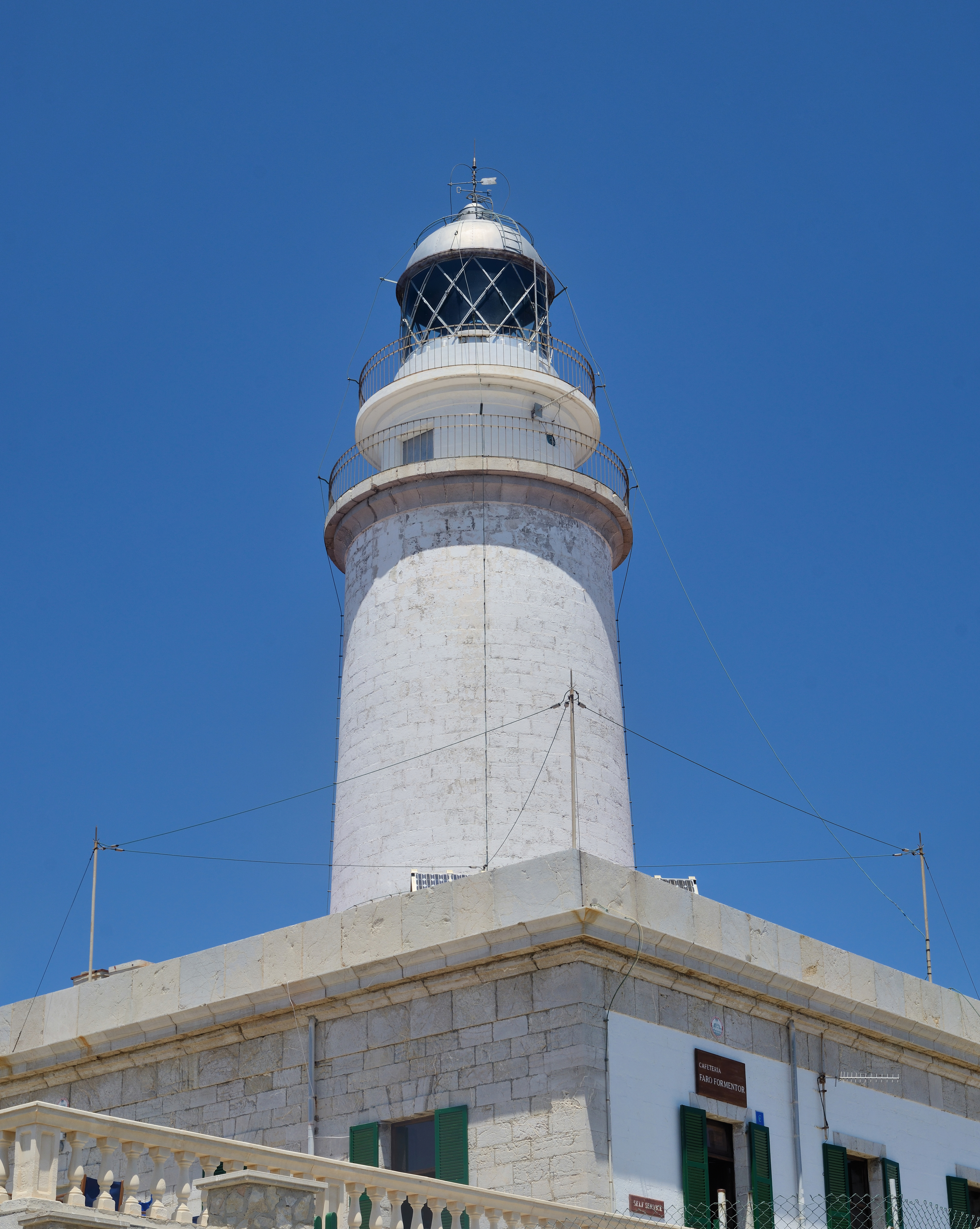 Lighthouse at Cap Formentor